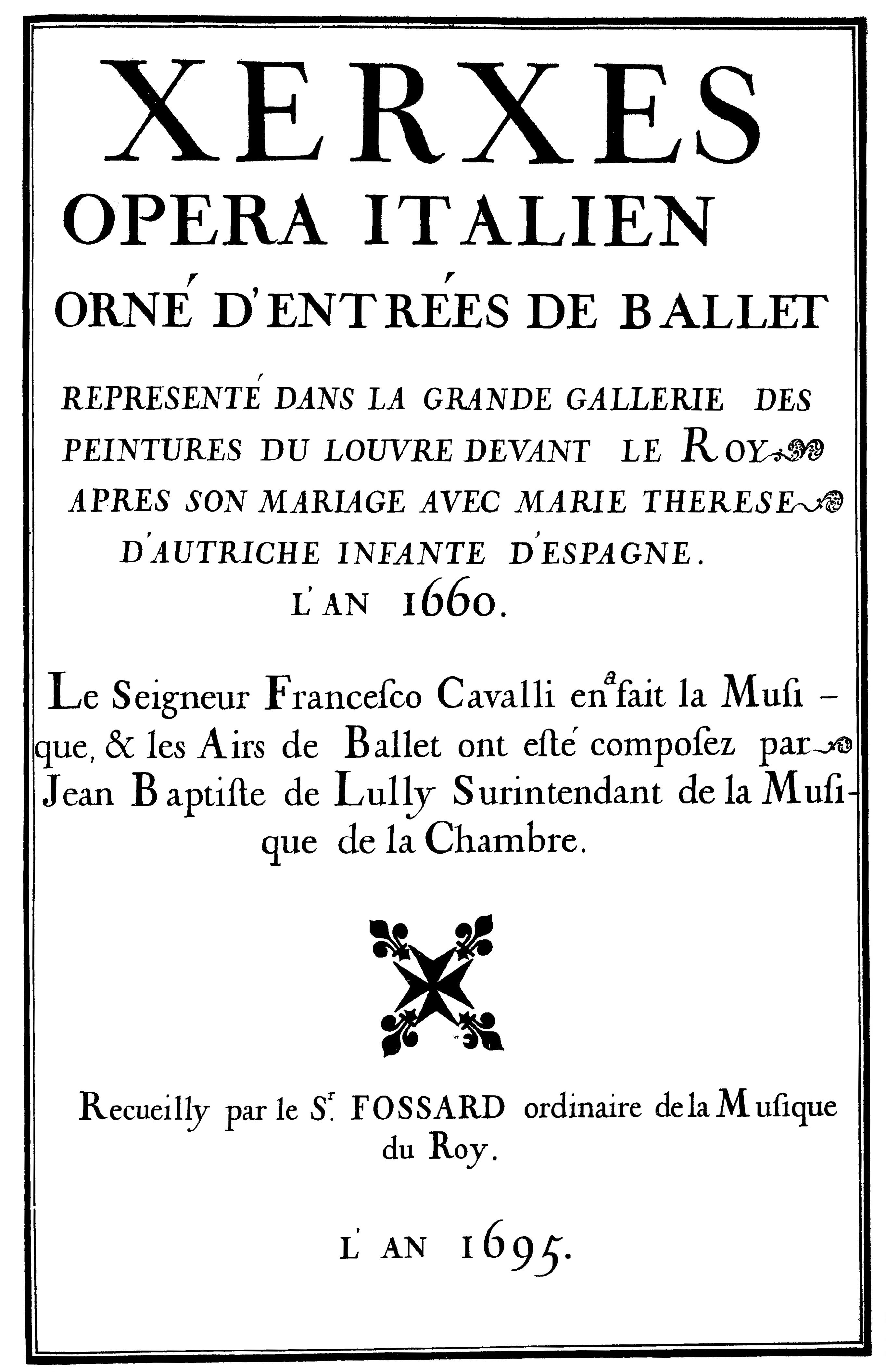 Title page of 'Xerxes'